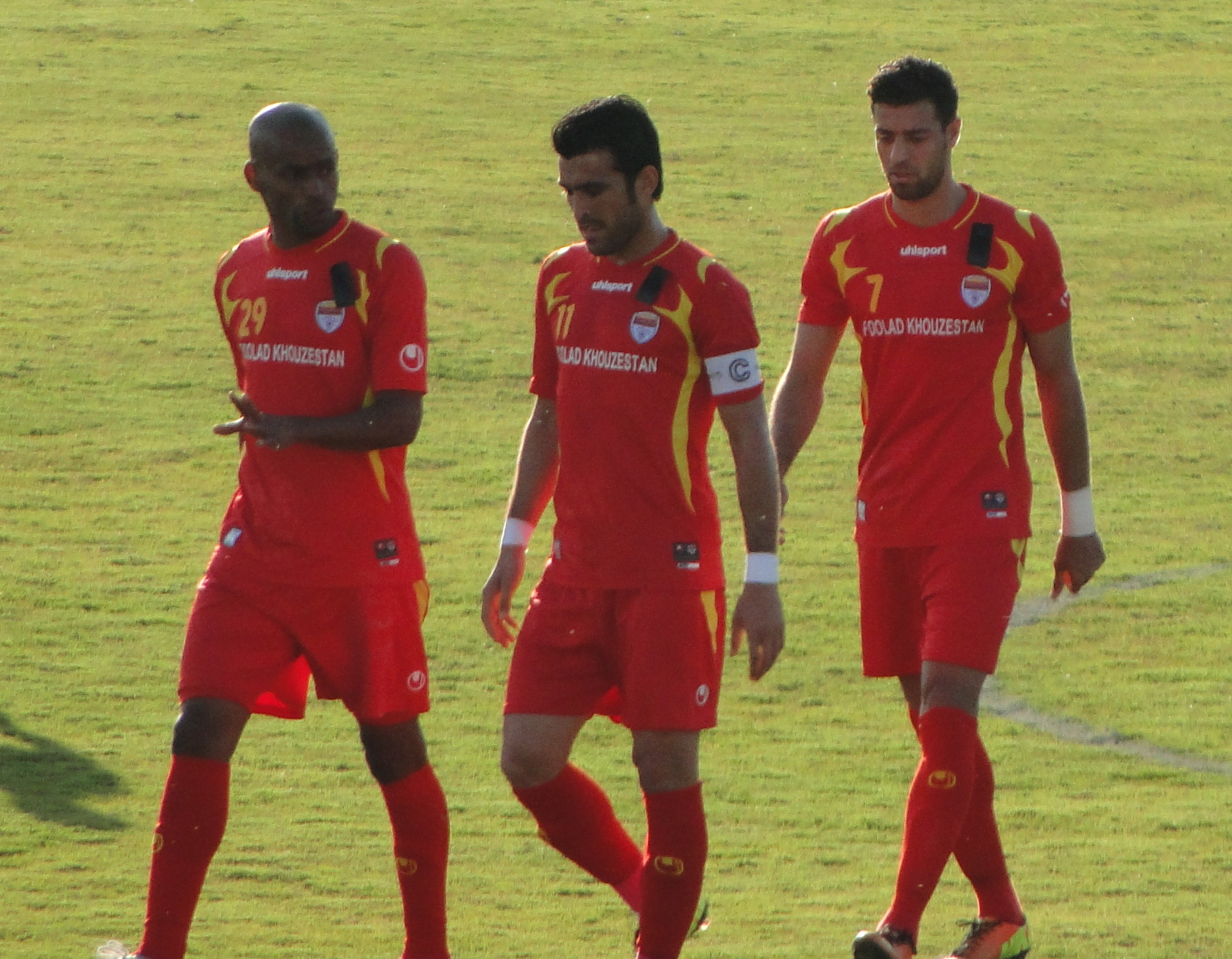 Right to left: Arash Afshin, Bakhtiar Rahmani and Chimba